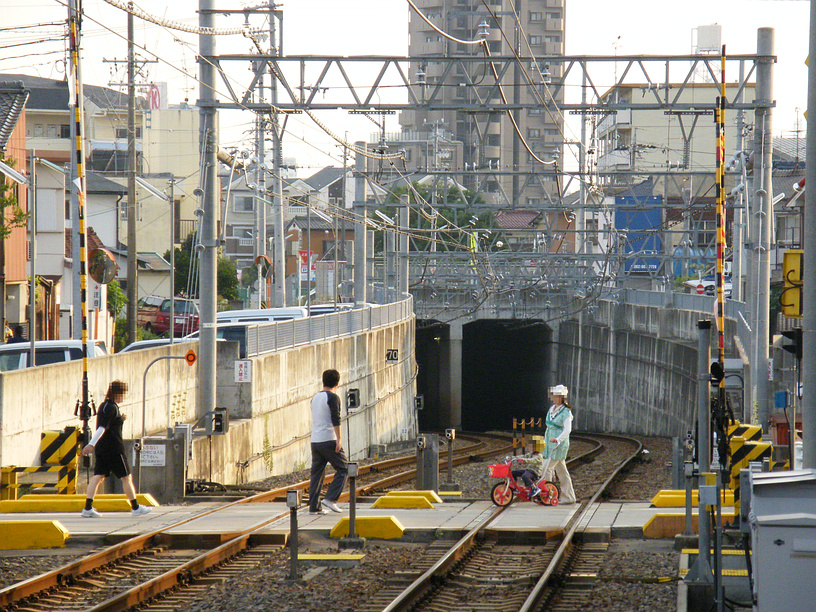 Facing toward Kami-Iida Station from Ajima Station platform